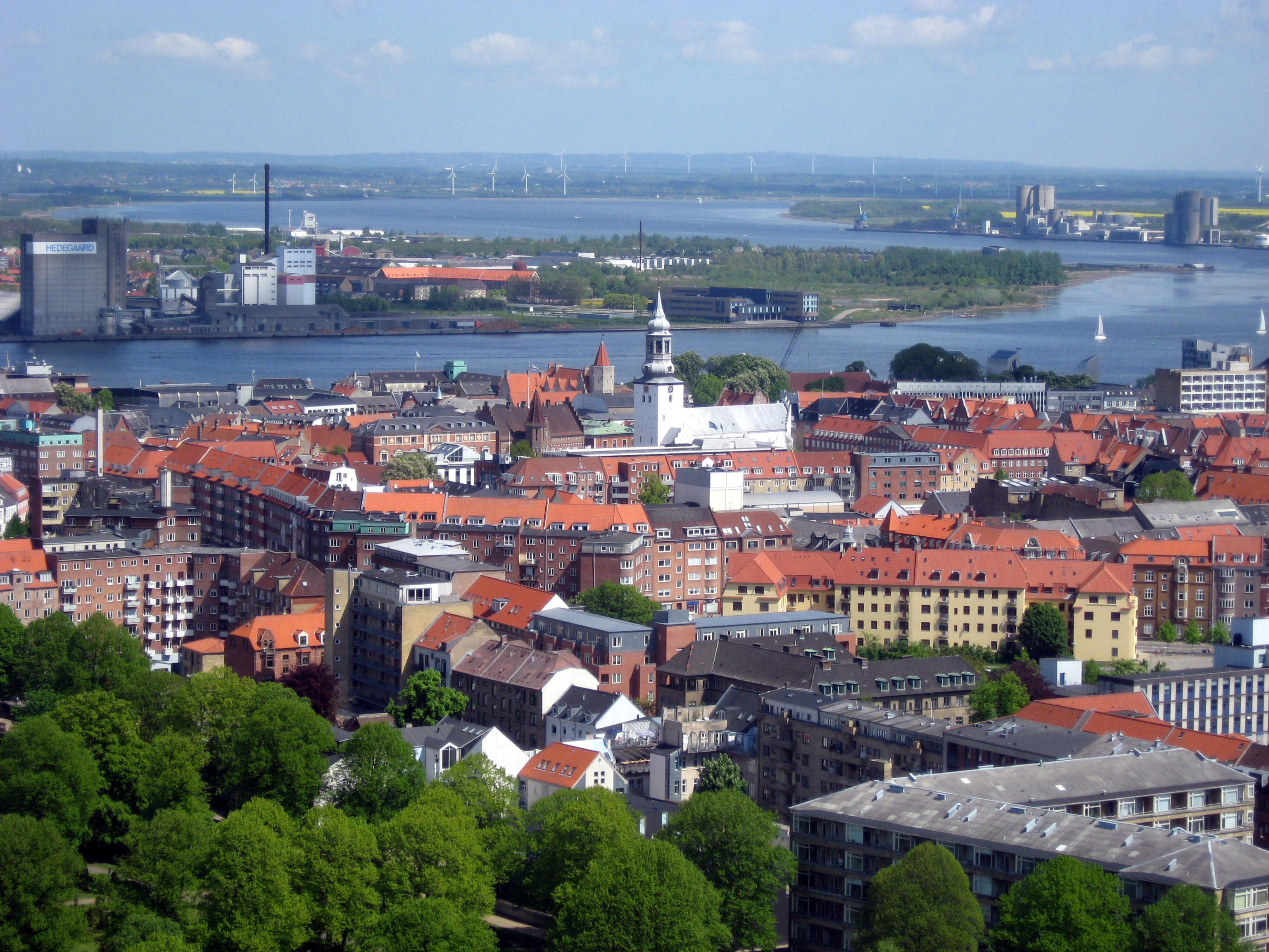 Aalborg (a town in Denmark). In the background: Limfjord and wind turbines